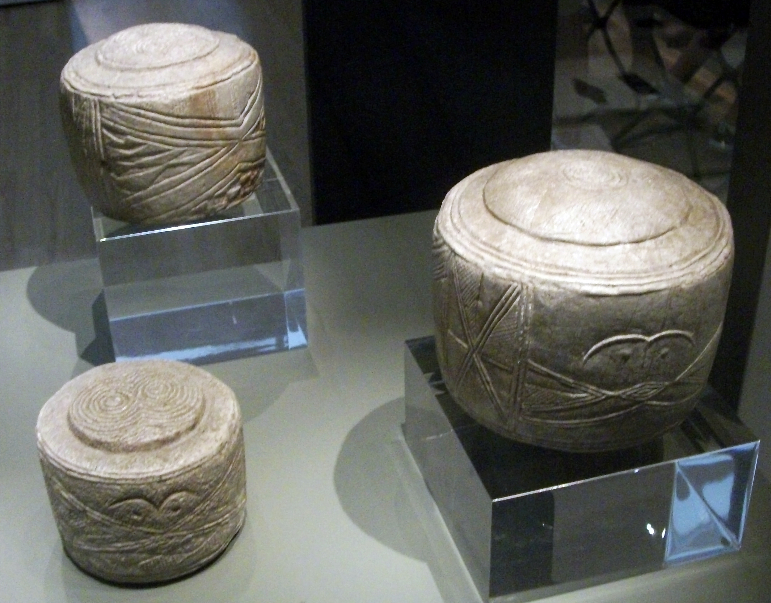 The Folkton Drums, Neolithic, 2600-2000 BC Found in East Yorkshire, England